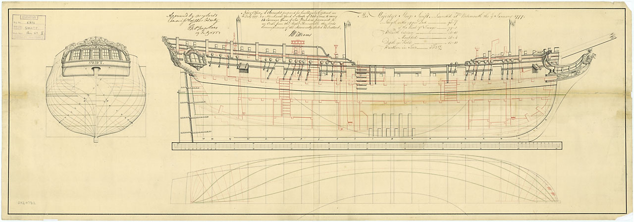 SWIFT 1777 lines & profile